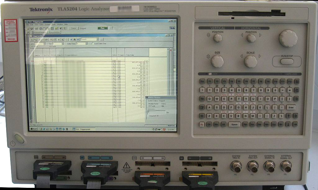 Tektronix Logic Analyzer TLA5204